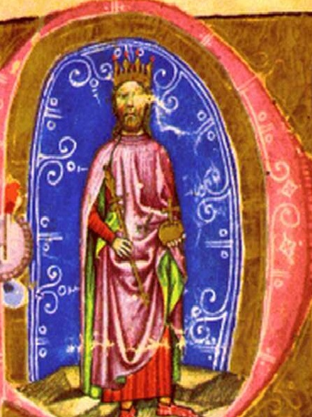 Miniature of King Bela IV of Hungary, with some text